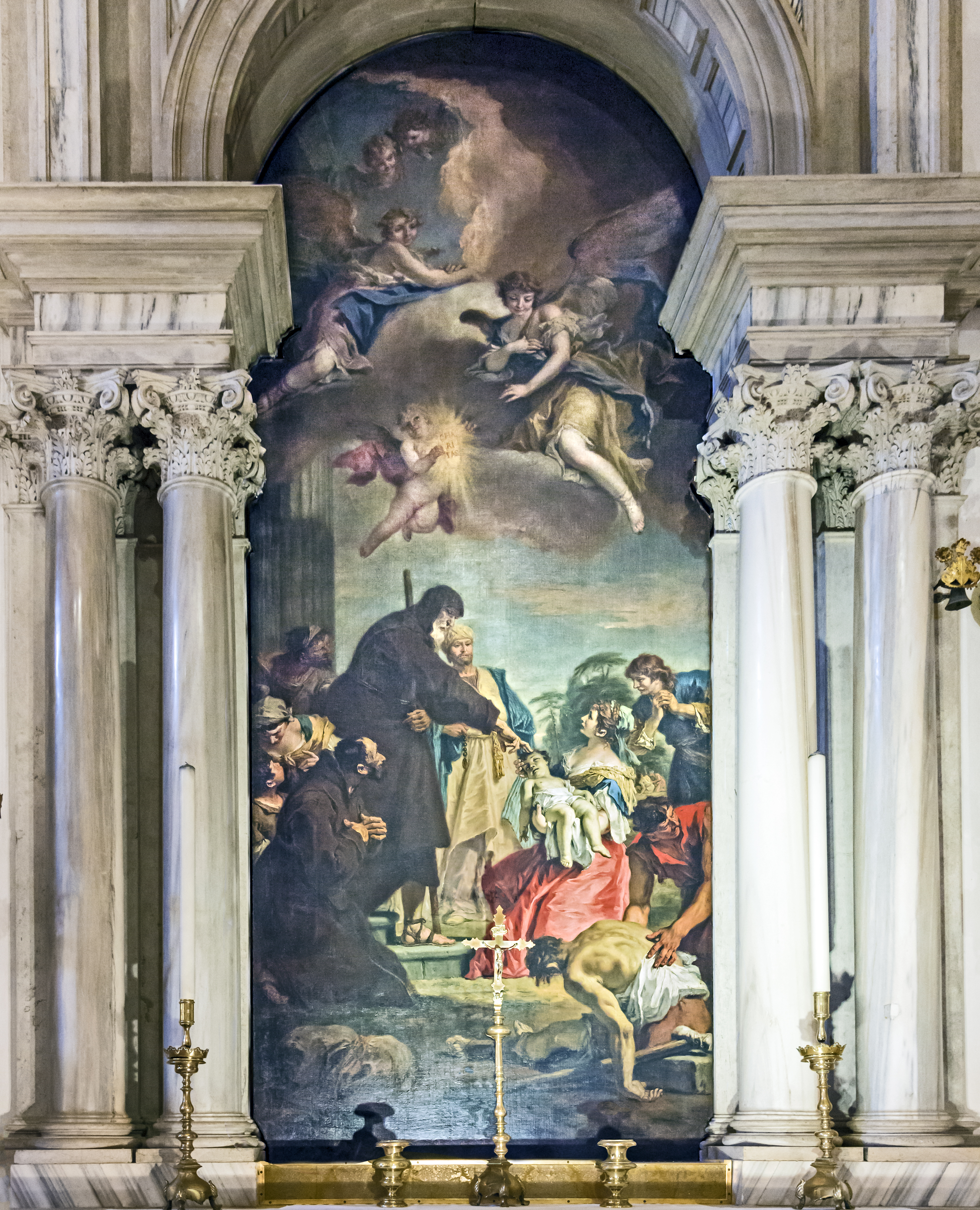 Church of San Rocco in Venice. St. Francis of Paola Healing a Boy of Sebastiano Ricci (1733); oil on canvasmedium QS:P186,Q296955;P186,Q12321255,P518,Q861259; Height: 400 cm (13.1 ft); Width: 167 cm (65.7 in) dimensions QS:P2048,400U174728;P2049,167U174728.